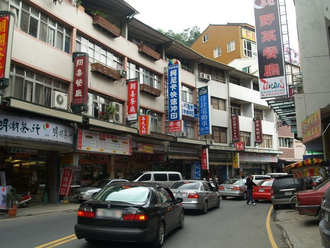 Sun Moon Lake Shueishe,taken by ResTpeTw on March 1st 2008